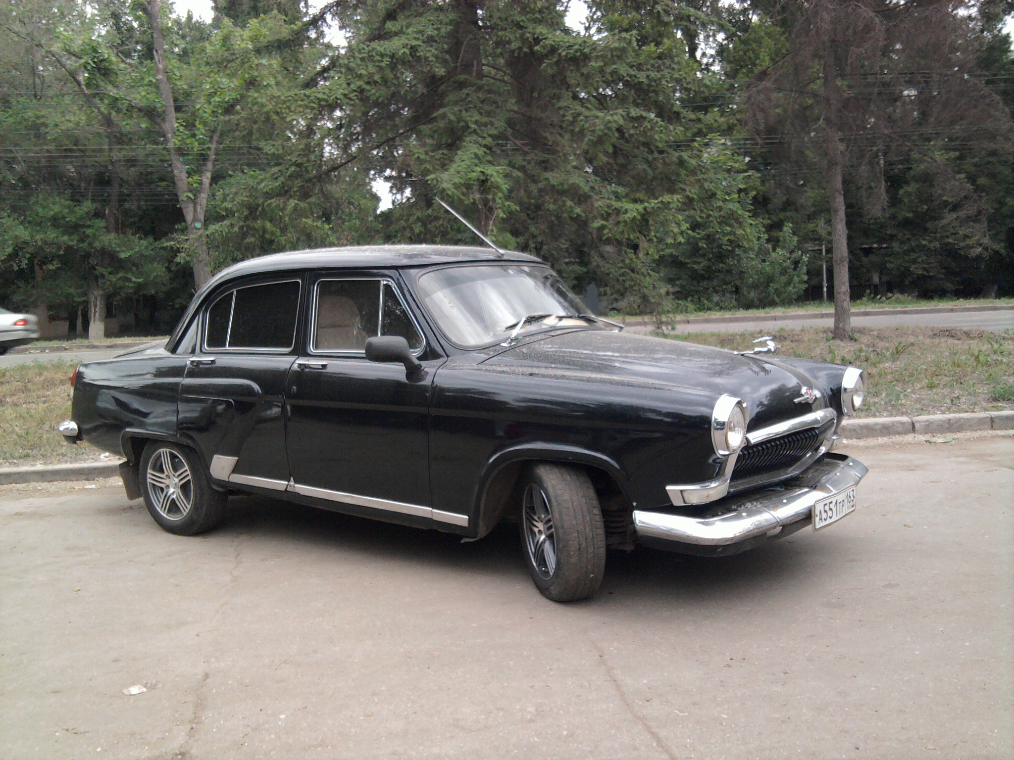 Customized GAZ-21 Volga (1962-70). Deer hood ornament is not original for this series.